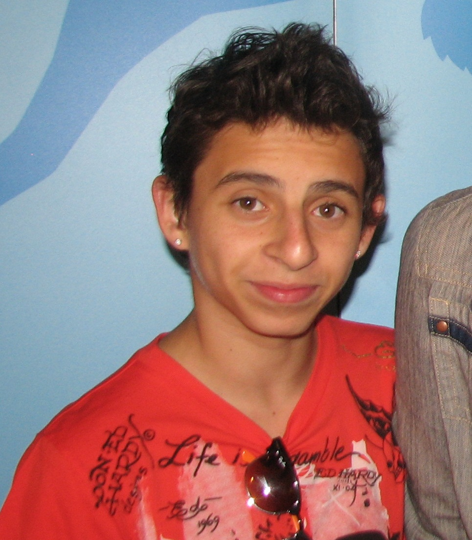 Moises Arias at the Disney Store in August 2010